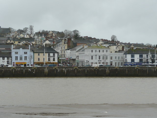 Bideford from East-the-Water 1 The High Street is the road ascending the hill at right-angles to the quay.